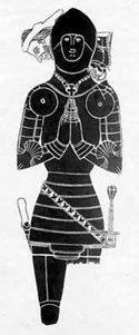 An illustration of the funerary brass of Sir John Drayton (died 1417) of Nuneham Courtenay, Oxfordshire, in Dorchester Abbey, Dorchester on Thames, Oxfordshire, England, UK. Drayton was the third husband of Isabel Russell, the second daughter of Sir Maurice Russell (2 February 1356 – 27 June 1416), a High Sheriff of Gloucestershire, by his first wife Isabel Childrey.